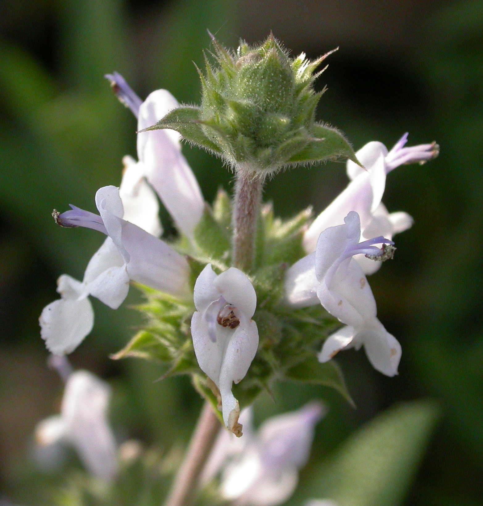 Salvia mellifera Photographed at BioTrek. Contributed and © by Curtis Clark. Licensed as noted.